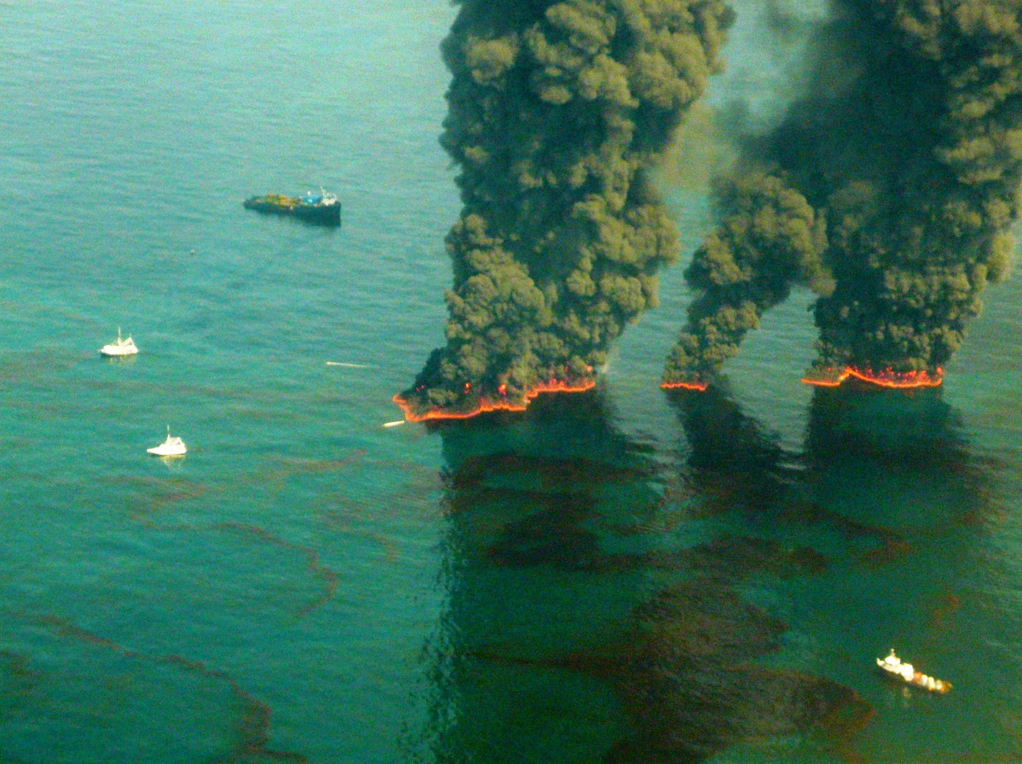 Clouds of smoke billow up from controlled burns taking place in the Gulf of Mexico May 19, 2010. The controlled burns were set to reduce the amount of oil in the water following the Deepwater Horizon oil spill.